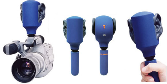 Binaural mic